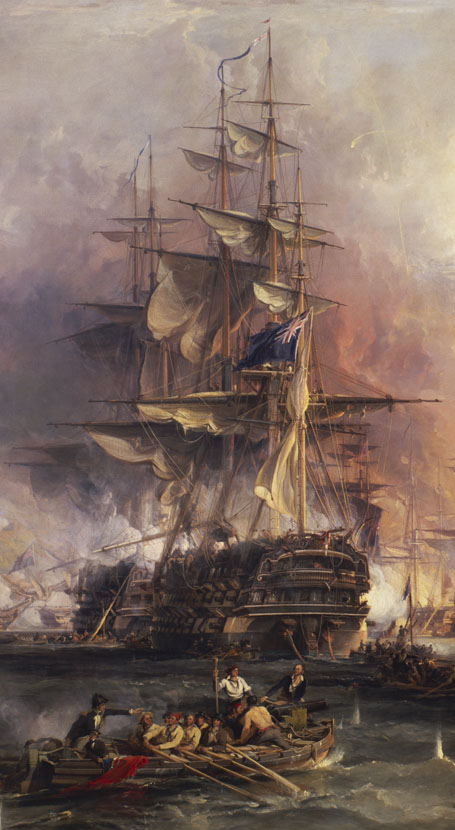 In the foreground of the painting is a barge with a howitzer in the bows and a lieutenant standing at her tiller. To the left of her are two boats, one sunk and the other with sailors rescuing the crew. In the right foreground is a fallen spar and another barge with a carronade in her bow. Beyond her more boats are sheltering under the 'Impregnable', 98 guns, the fore part of whose bow is in the picture. In the left middle distance there are three more boats under the stern of the 'Minden', 74 guns, one of which is about to fire a Congreve rocket. The 'Minden', in port-quarter view, is firing her starboard guns, and partly masks the 'Superb' also in port-quarter view. More boats are sheltering under the port side of their hulls. In the left background can be seen the forepart of the Dutch flagship 'Melampus', 40 guns, in starboard-broadside view and ahead of her the stern of a British frigate. In the middle and right background is the 'Queen Charlotte', 100 guns, in port-quarter view, flying Pellew's blue admiral's flag at the main, and a glimpse of the 'Leander', 50 guns, ahead of her. They are engaged with the batteries of the harbour, engulfed in flame, and the ships burning within it. Above the smoke Algiers can be seen rising up the hills behind.